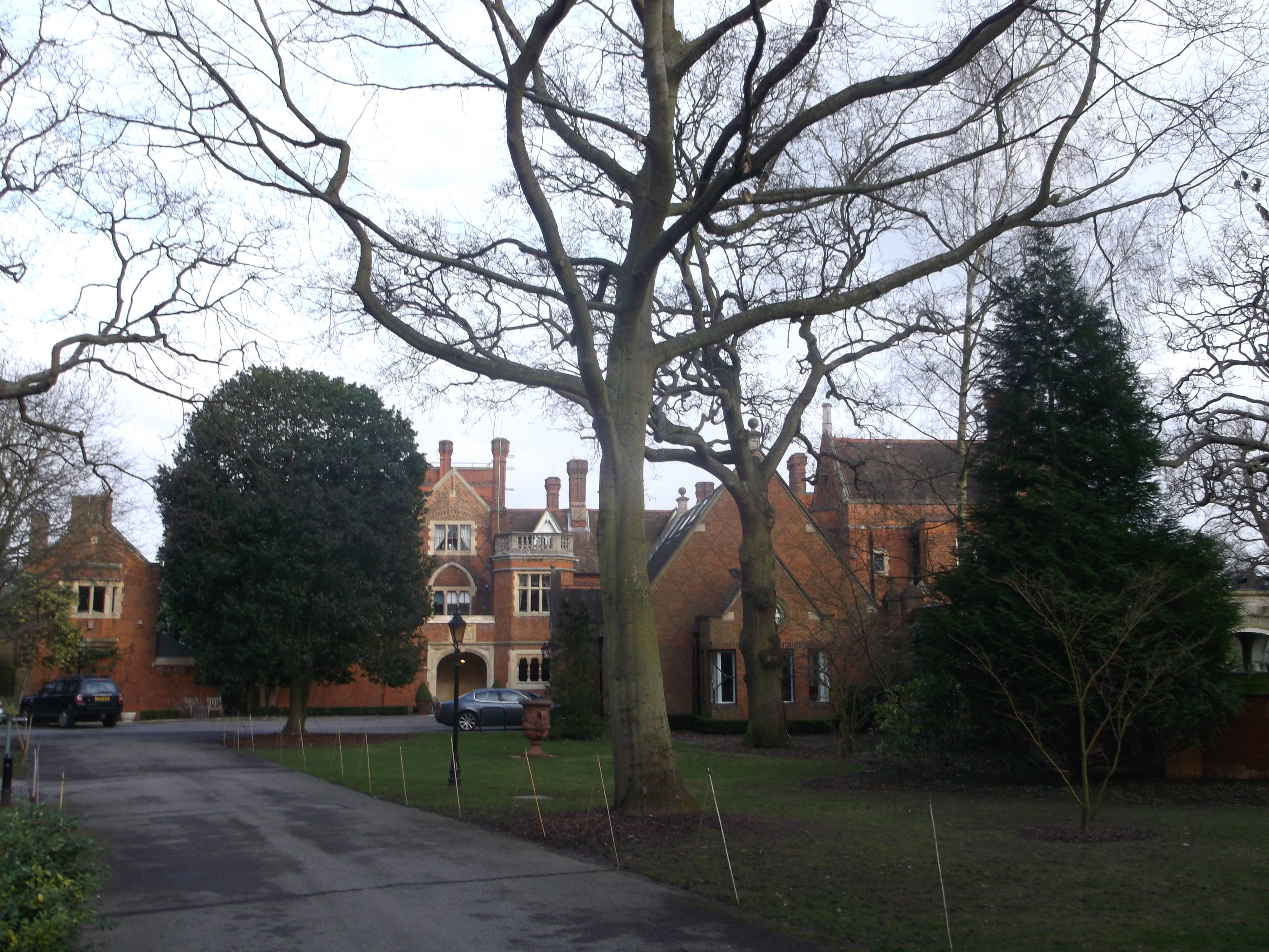 Warren House, Coombe. Small country house, now a Grade II listed conference centre. It was built in 1860's for Hugh Hamersley, extended 1884-6 by the architect George Devey for George Grenfell Glyn, Lord Wolverton.